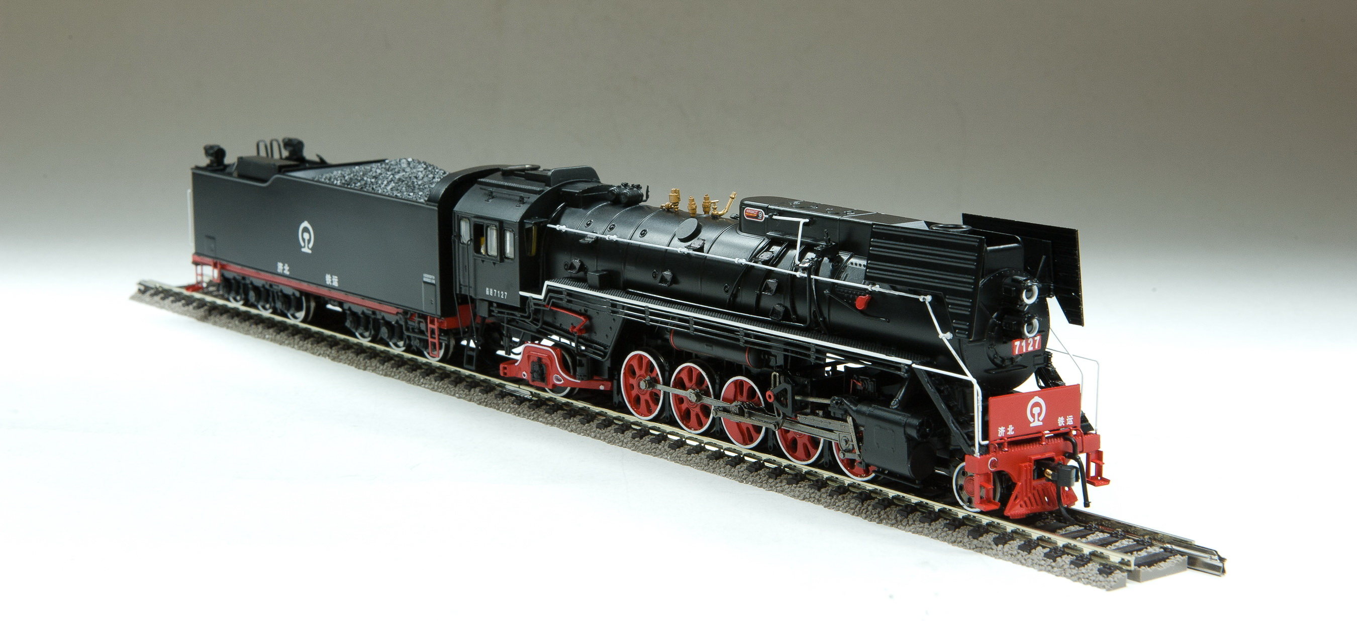 China Railway QJ Steam Locomotive of HO scale.